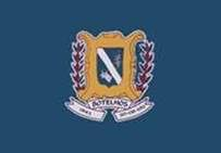 Flags of the city of Botelhos, Minas Gerais , Brazil.